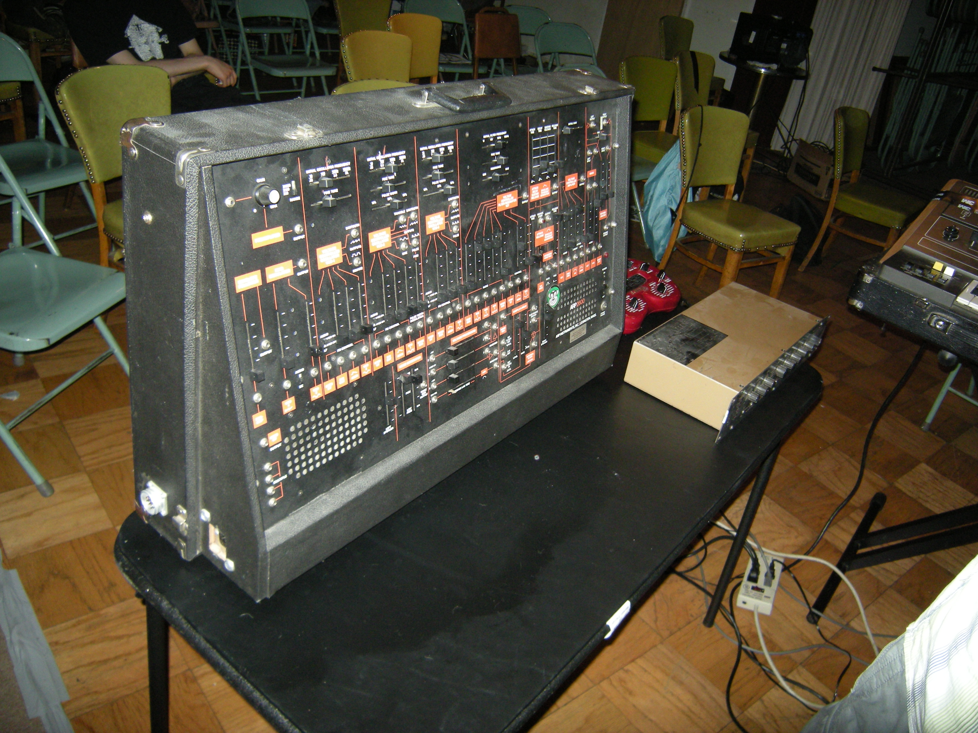 Steve Fisk's ARP-2600 synthesizer (it also has a keyboard component), photographed at the 14th Olympia Experimental Music Festival, Olympia, Washington.